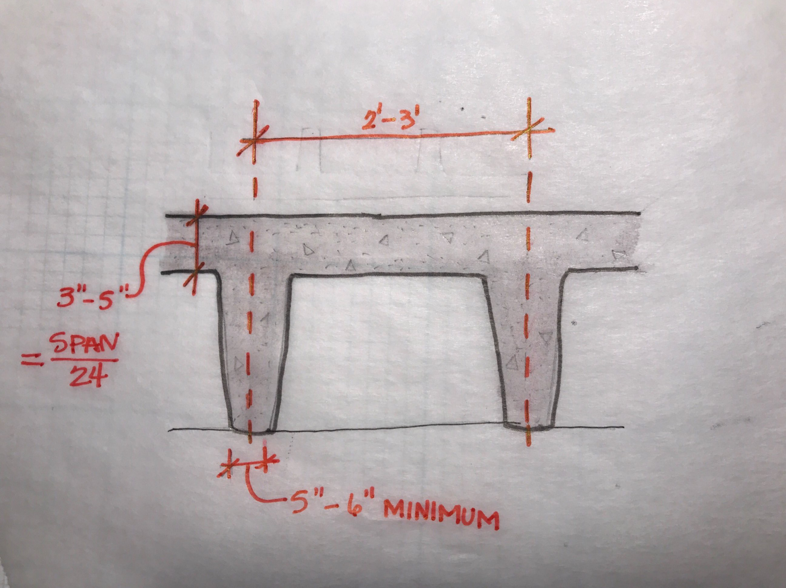 Diagram shows Slab and Rib width with rules of thumb formula